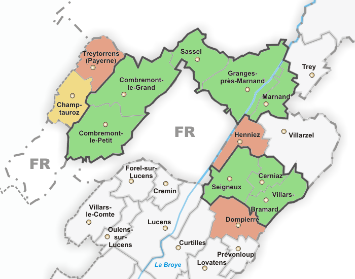 Municipalities which have approved the fusion. Municipalities which have denied the fusion during the votation of February 8th 2009. Municipality which has left the project between both votes.